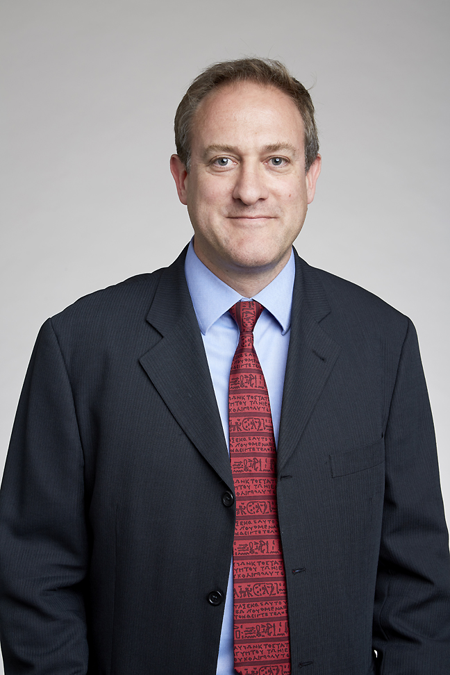 Neil Burgess (born 1966) FRS FMedSci is a Professor of Cognitive neuroscience and Computational neuroscience at University College London where he is also a Wellcome Trust Principal Research Fellow Attribution: The Royal Society